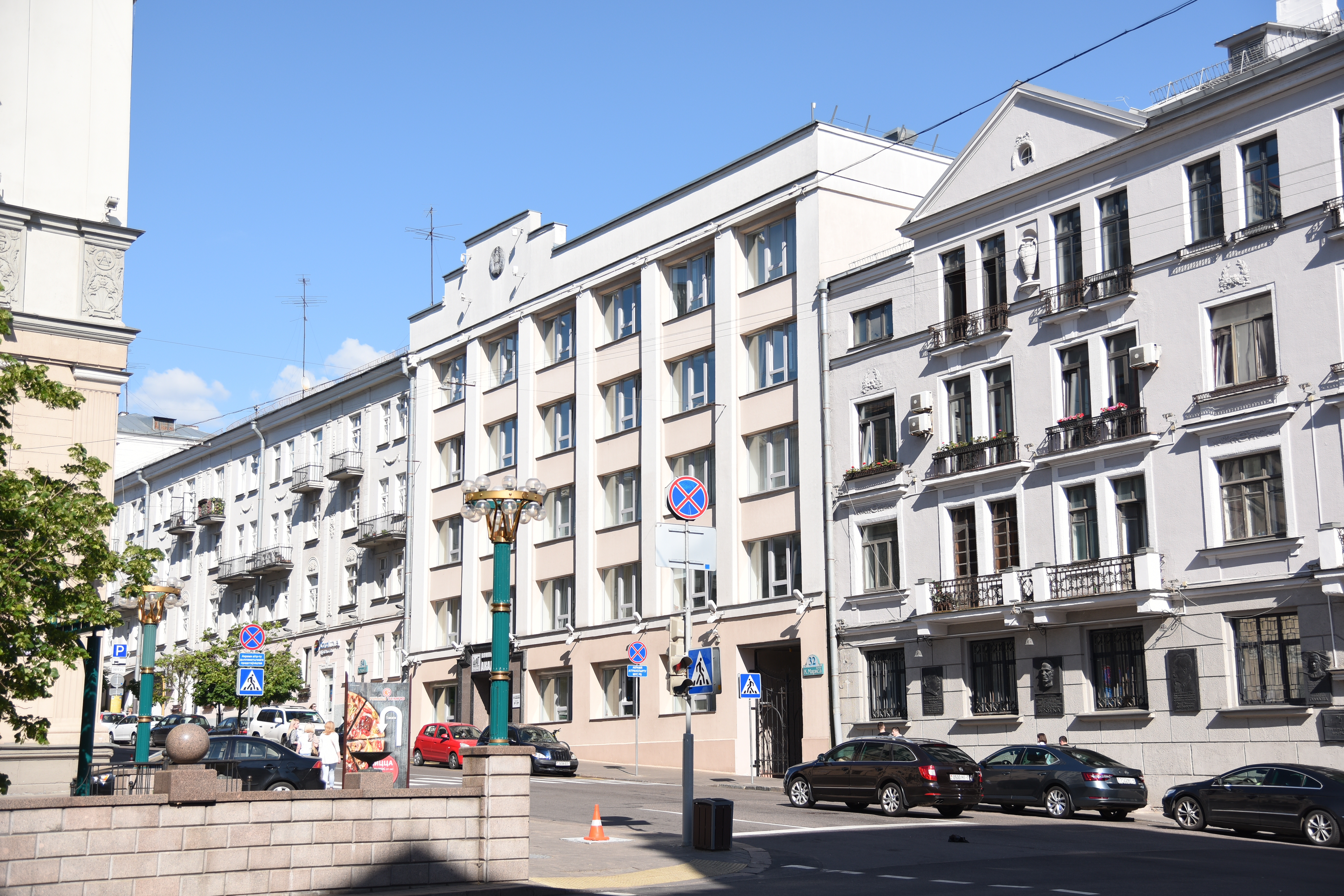 Minsk, May 2019